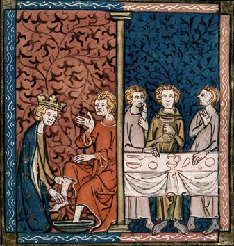 Louis IX of France washing a poor man's feet, and feeding the poor. (British Library, Royal 16 G VI f. 422)